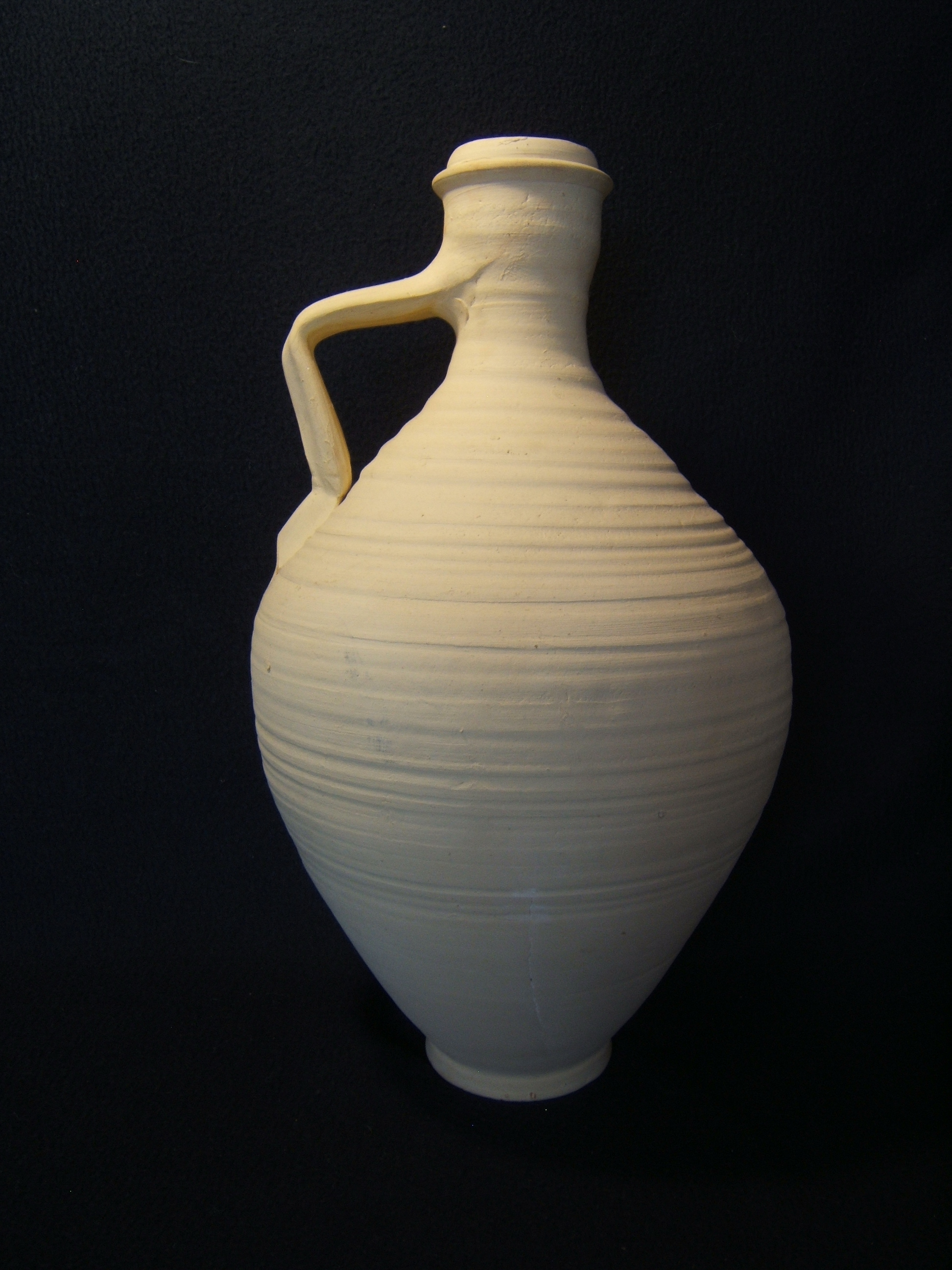 Cántaro of La Rambla (21st century), copying a traditional model of Spanish Southwest. La Rambla (Córdoba), Spain.